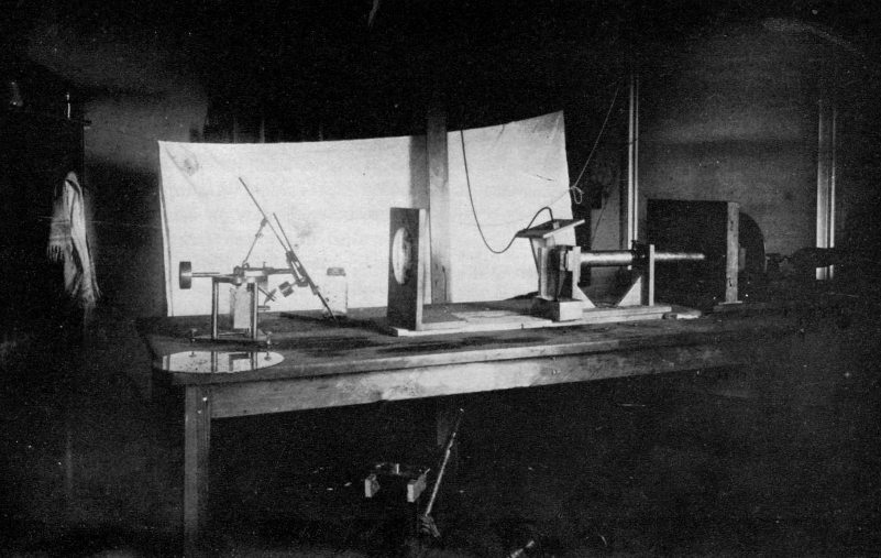 A description of the procedure used is found on page 67, of Tainter's unpublished autobiography. There, Tainter quotes Chichester Bell as follows: "A jet of bichromate of potash solution, vibrated by the voice, was directed against a glass plate immediately in front of a slit, on which light was concentrated by means of a lens. The jet was so arranged that the light on its way to the slit had to pass through the nappe and as the thickness of this was constantly changing, the illumination of the slit was also varied. By means of a lens ... an image of this slit was thrown upon a rotating gelatine-bromide plate, on which accordingly a record of the voice vibrations was obtained."